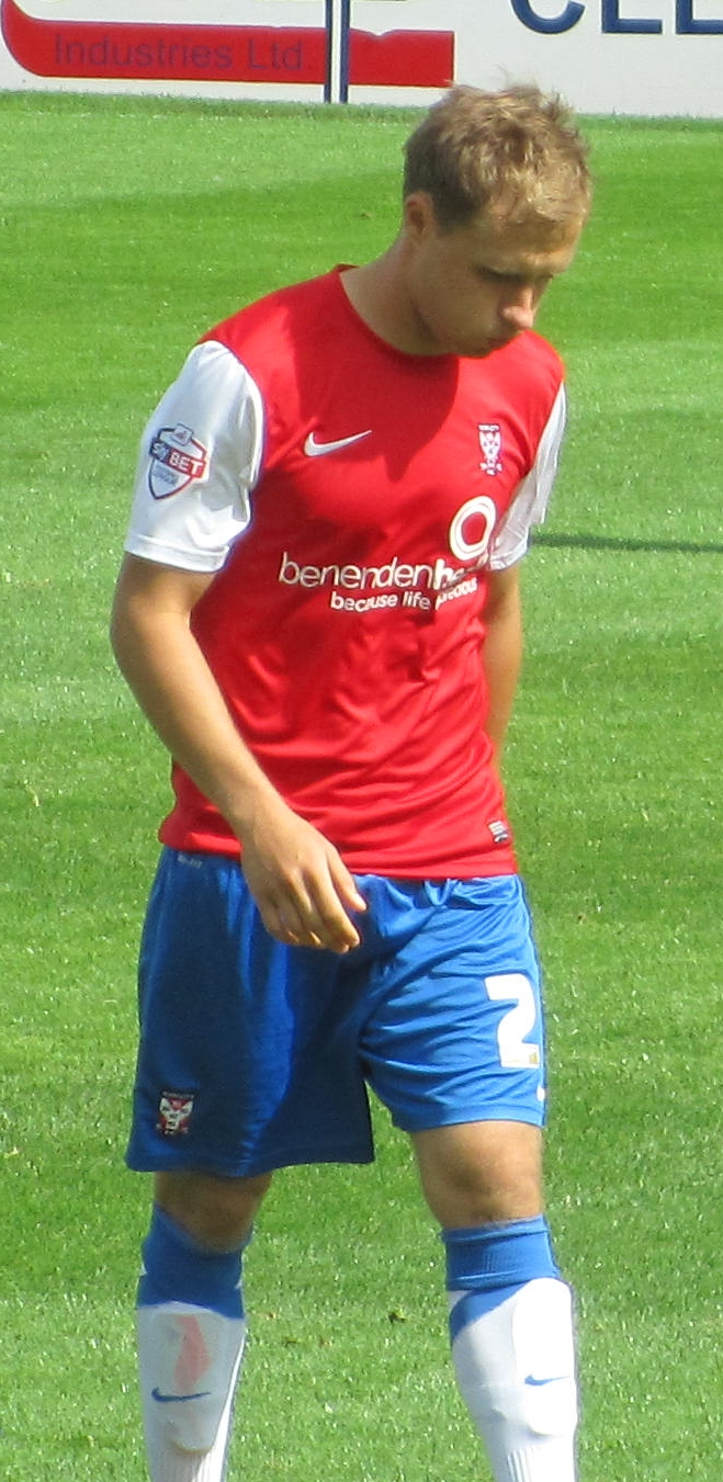 Sander Puri playing for York City against Northampton Town at Bootham Crescent, York on 3 August 2013